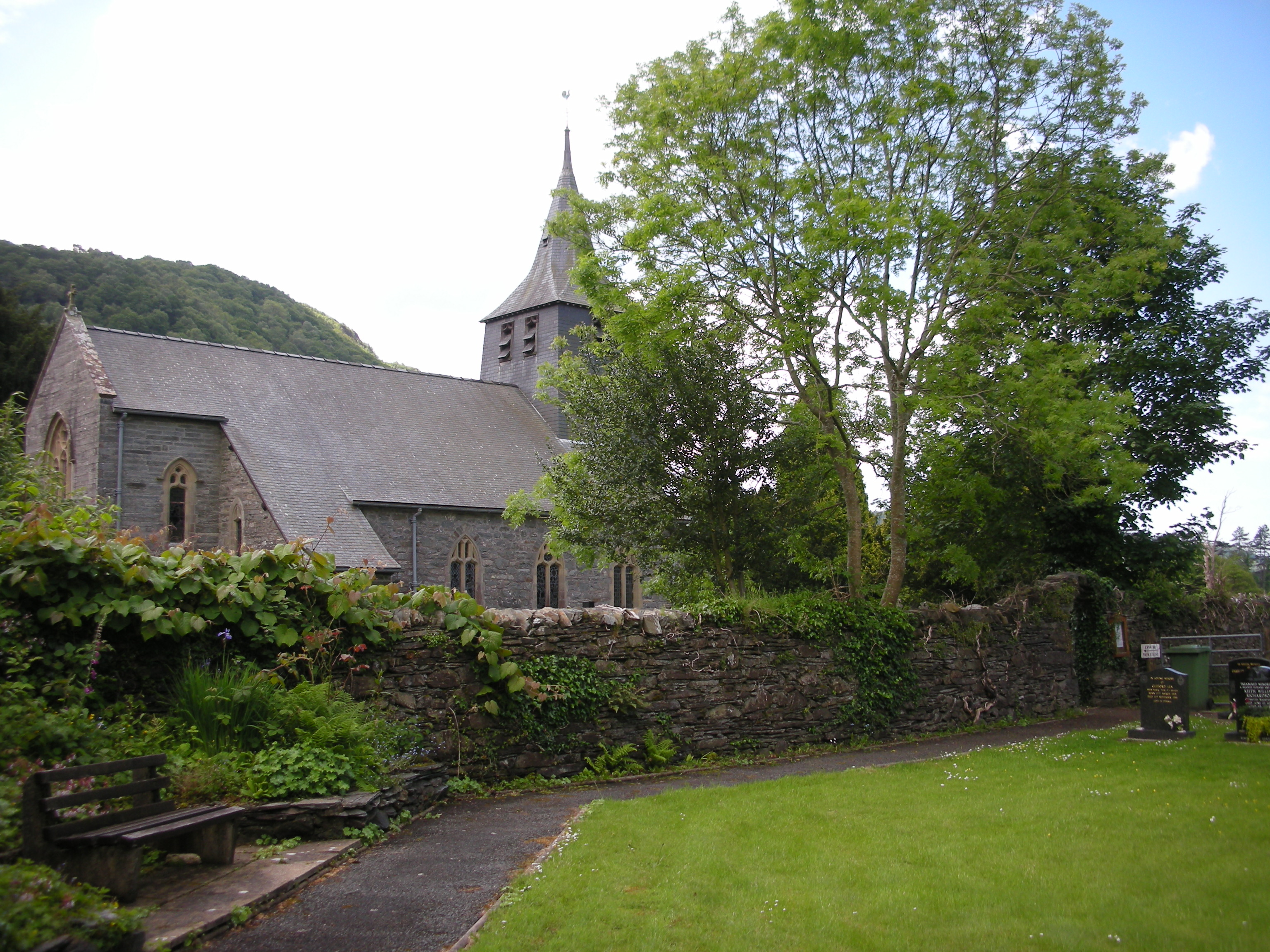 St Twrogs Church Maentwrog